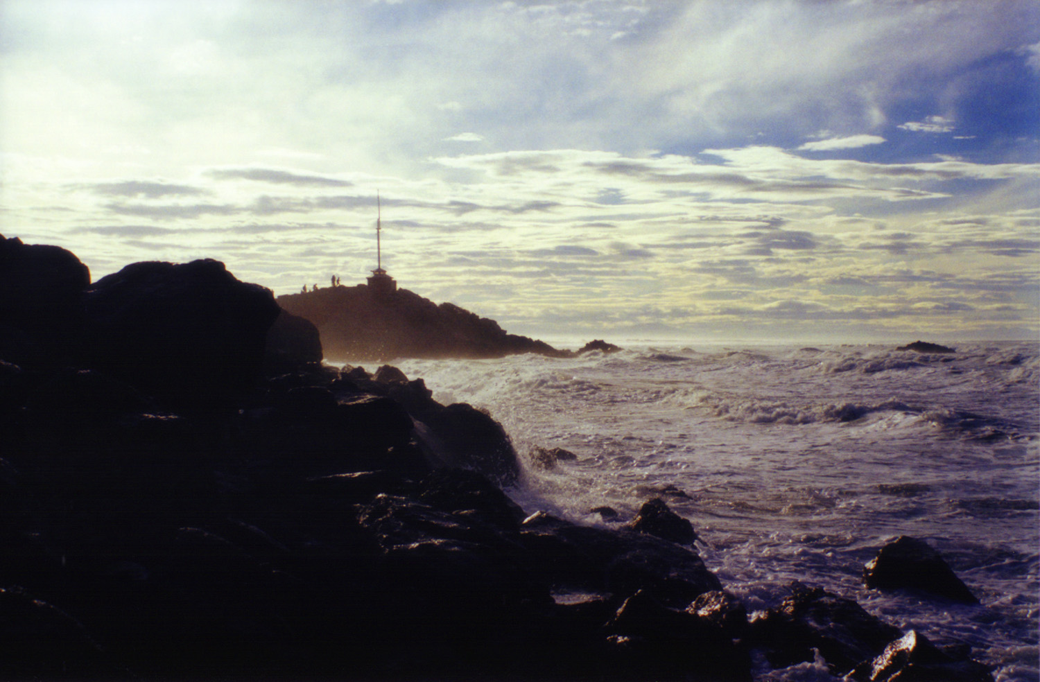 Scan of photo taken by Bmdavll in August 2003. Christchurch, New Zealand.